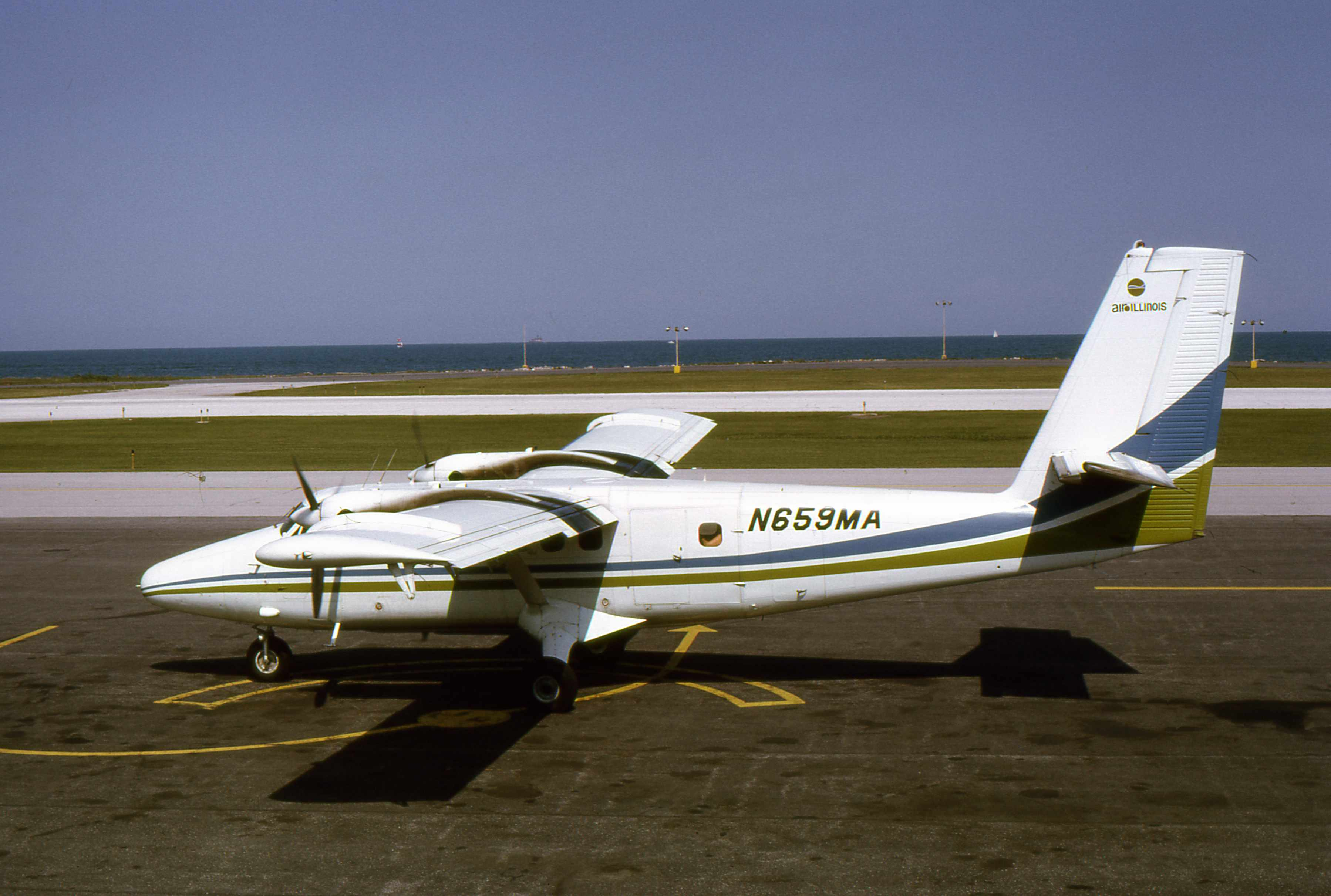 United States of America, Chicago, Meigs Field. Air Illinois de Havilland Canada DHC-6 200 Twin Otter N659MA, c/n 229, delivered to Miami Aviation in 1969-05-02. Delivered to Air Illinois in February 1971. Delivered to Newcal Aviation Inc. in March 1978. Registered N68DE in 1988-03-17 and cancelled in 2009-04-23.